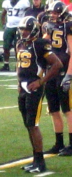 A personal photograph of Brad Smith